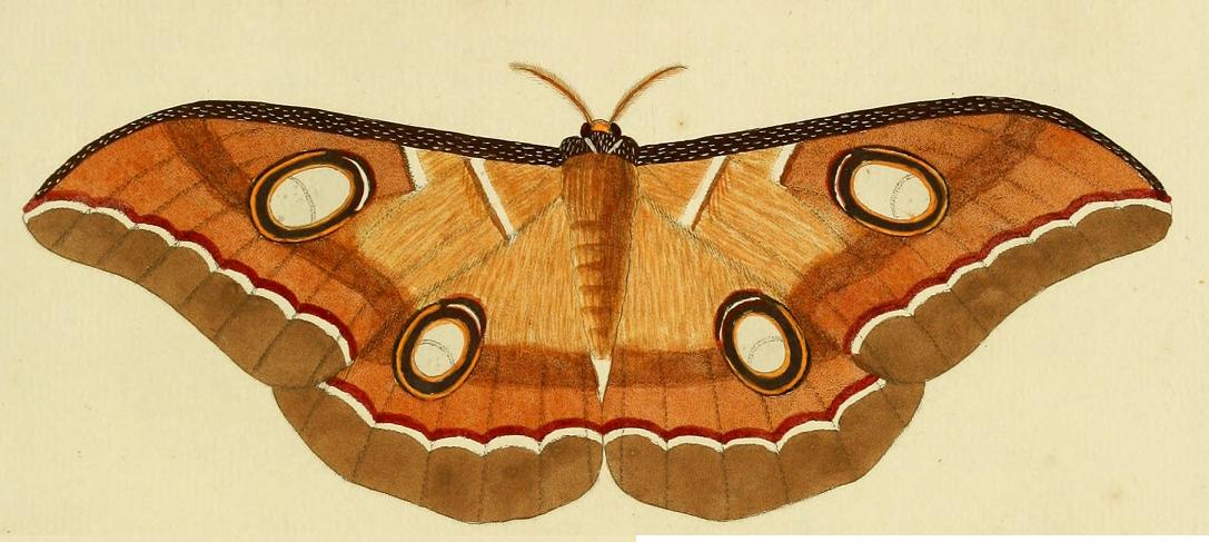 Plate CXLVI A: "(Phalaena) Paphia" ( = Antheraea paphia), see The Global Lepidoptera Names Index, NHM. Photos at Barcode of Life